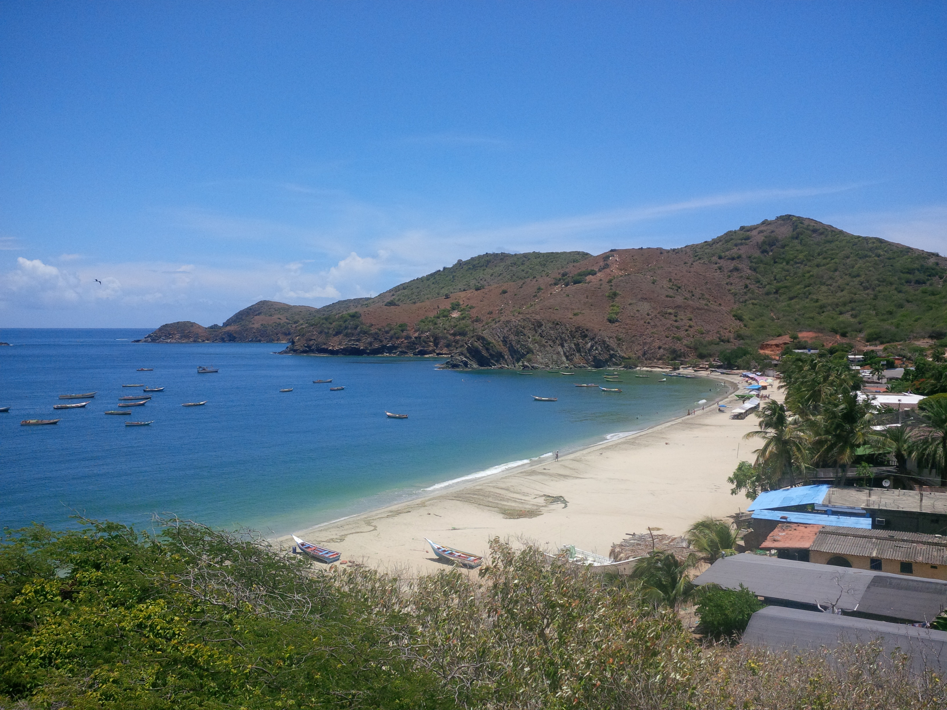 Manzanillo beach is located to the North of Margarita Island, New Esparta State, Venezuela.